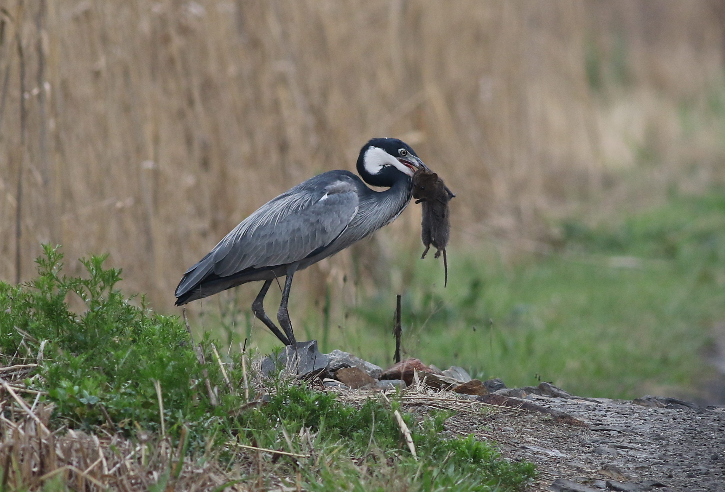 Black-headed Heron, Ardea melanocephala at Marievale Nature Reserve, Gauteng, South Africa - It was eating a rat, then went to drink some water.